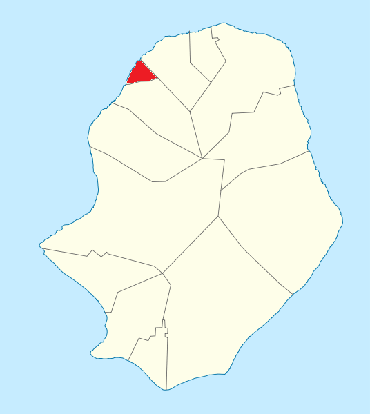 Location map for Namukulu, Niue. Based on file:Niue location map.svg.